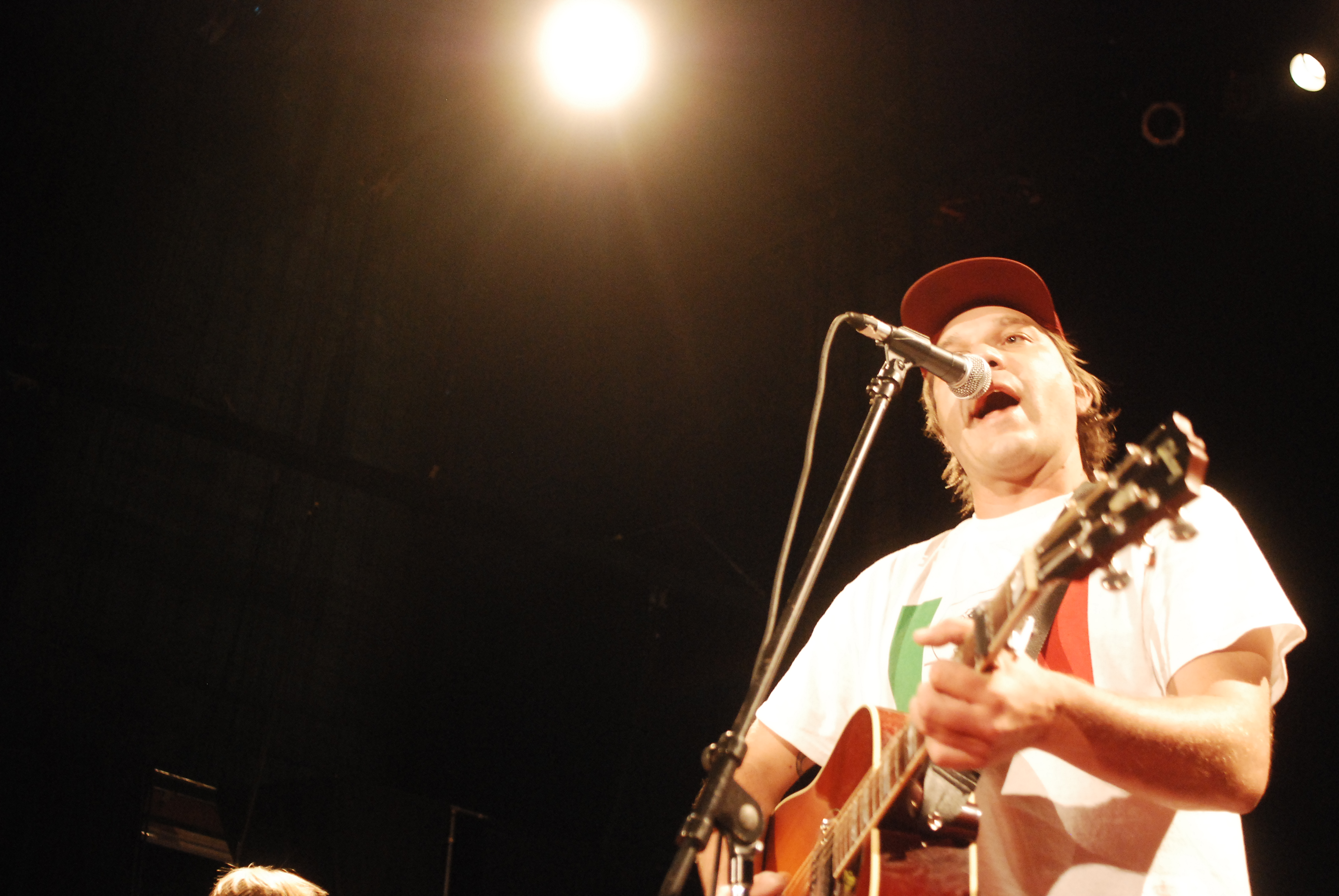 David Dondero at The Senator in Chico, CA.